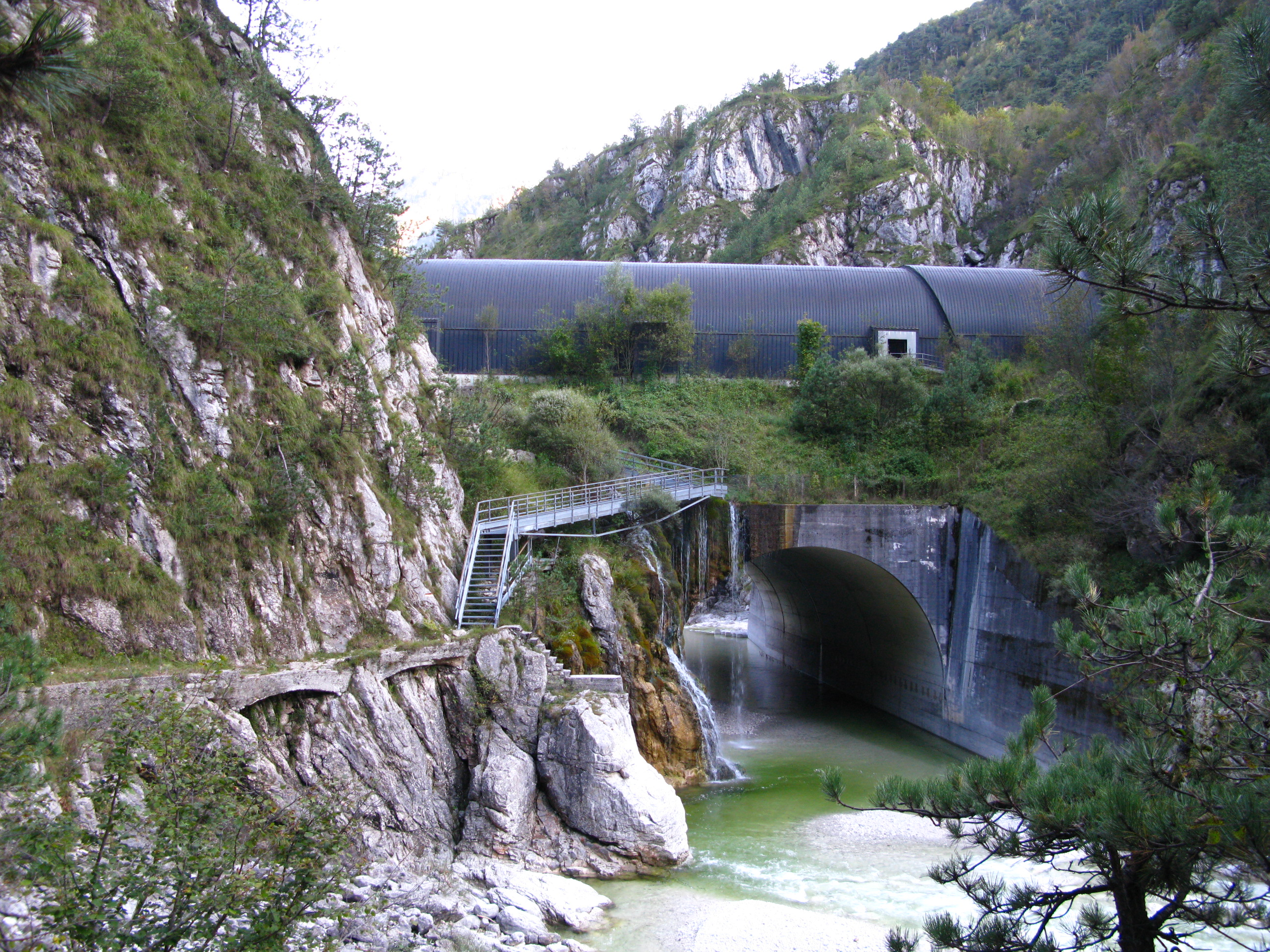 Torrente Glagno a river near Moggio Udinese / Friuli-Venezia Giulia / Italy / EU. Over a short distance the railway Pontebbana from Tarvisio to Udine traverses the Glagno valley.